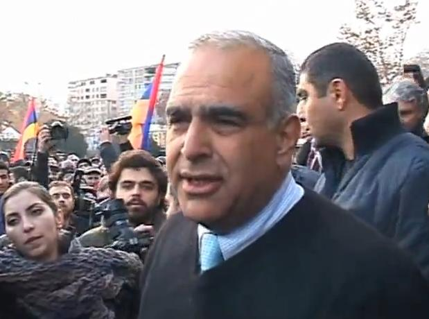 Armenian presidential election, 2013 protests, February 20, 2013, Yerevan, Freedom Square